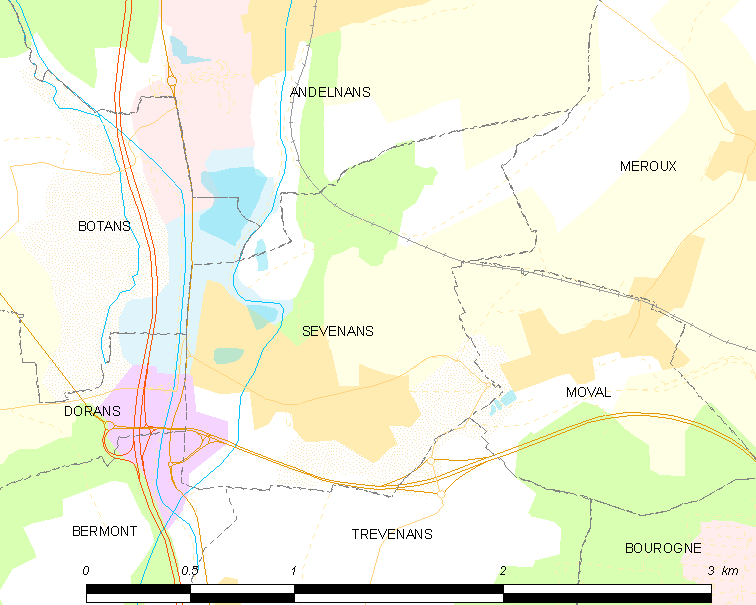 Map of French municipality Sevenans